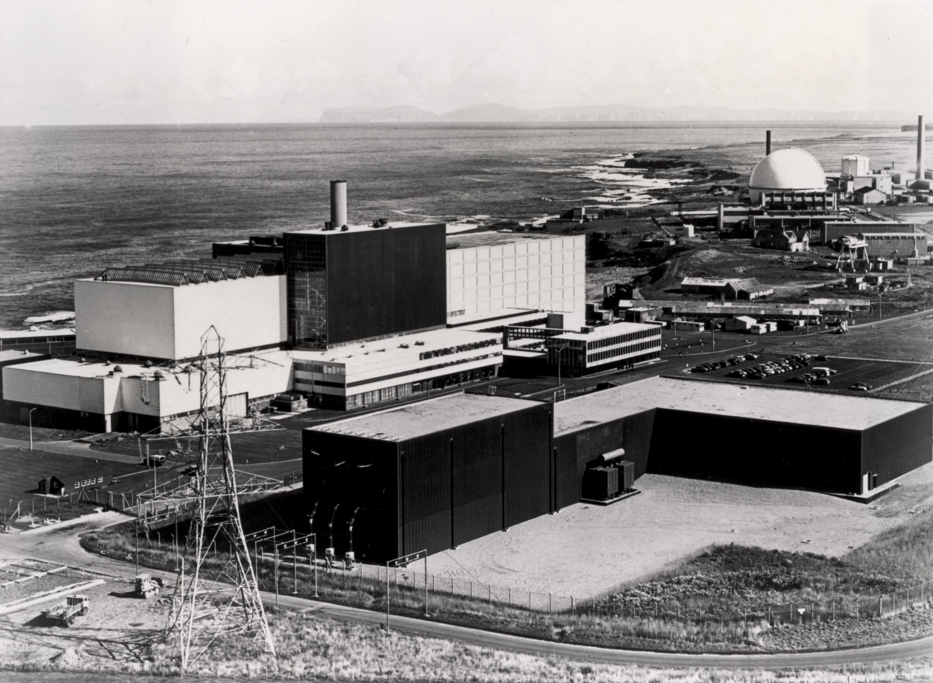 The United States is not alone in developing liquid metal fast breeder reactor technology. Plants are already operating in France, the Soviet Union and the United Kingdom; West Germany and Japan should complete theirs before the U.S. Shown here is the 250-MWe Dounreay prototype fast reactor in Scottland (large white and black building) which has been generating electricity since 1975.